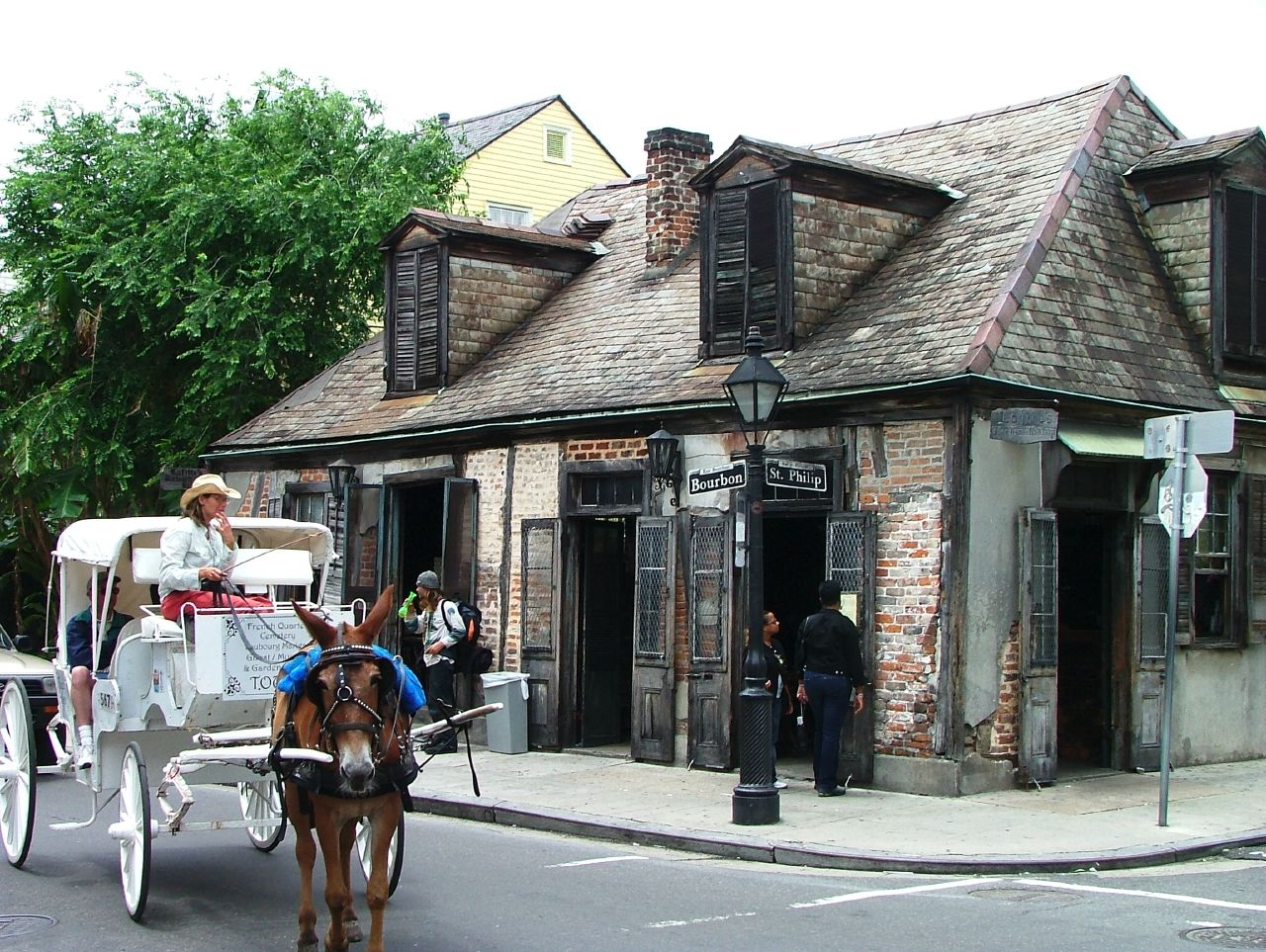 New Orleans: Tourist carriage passing "Laffitte's Blacksmith Shop" bar, uptown lake corner of Bourbon & St. Phillip Streets, French Quarter